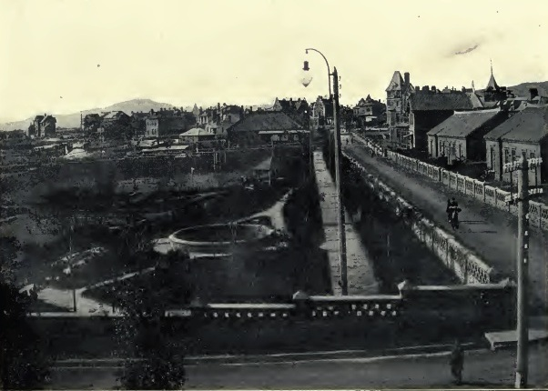 View of the official quarter of Russian Dalny, ca. 1904